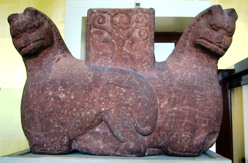 Pillar capital with addorsed lions and Prakrit inscriptions in the Kharoshthi script, one of which indicates that Queen Nadasi Kassa, wife of the satrap Rajula, had donated a stupa containing the relics of the Buddha. Red sandstone, Kushan dynasty, 1st century CE. From the Mathura region, Uttar Pradesh, India.